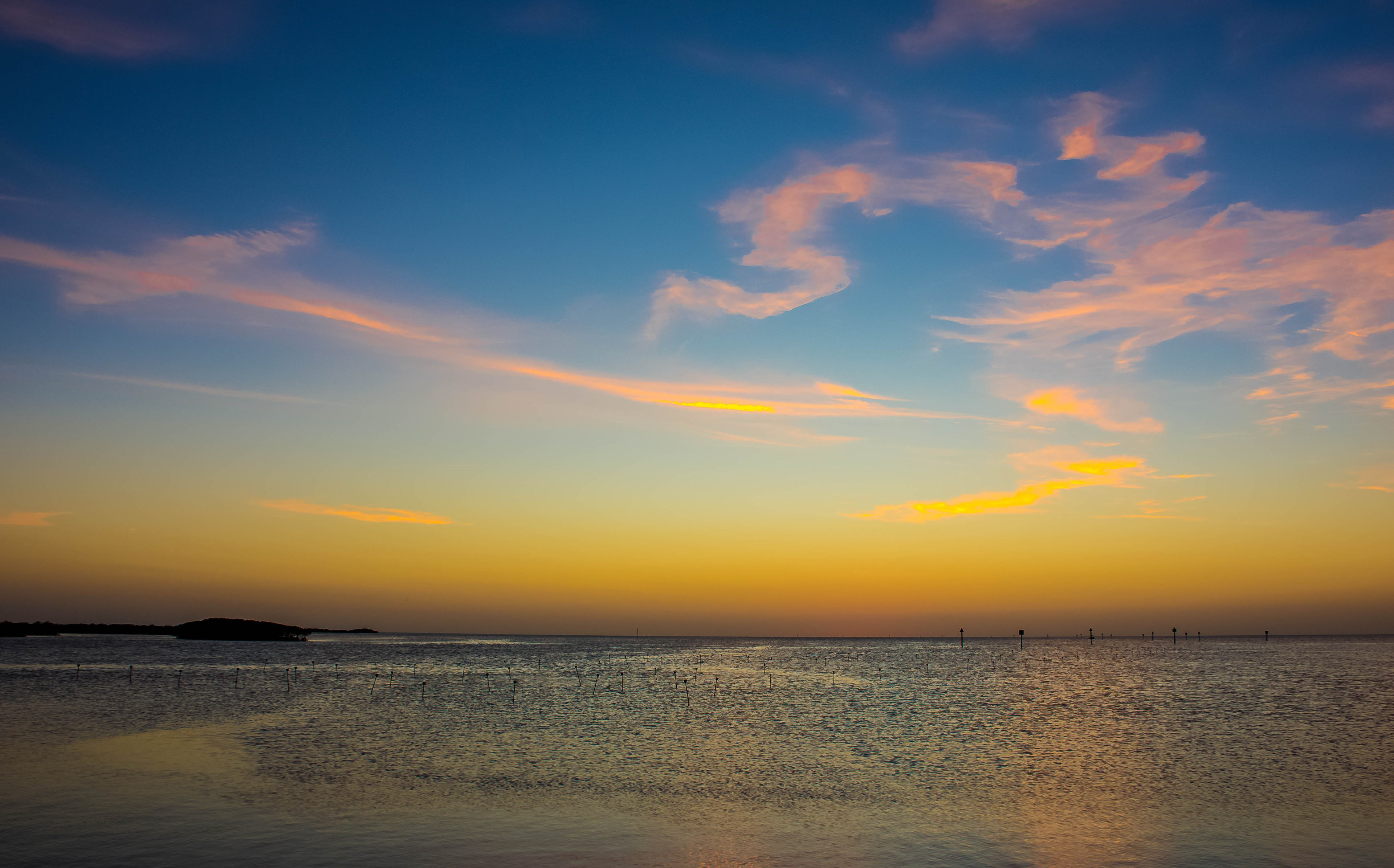 Post sunset at Bayport Park in Spring Hill, Florida.